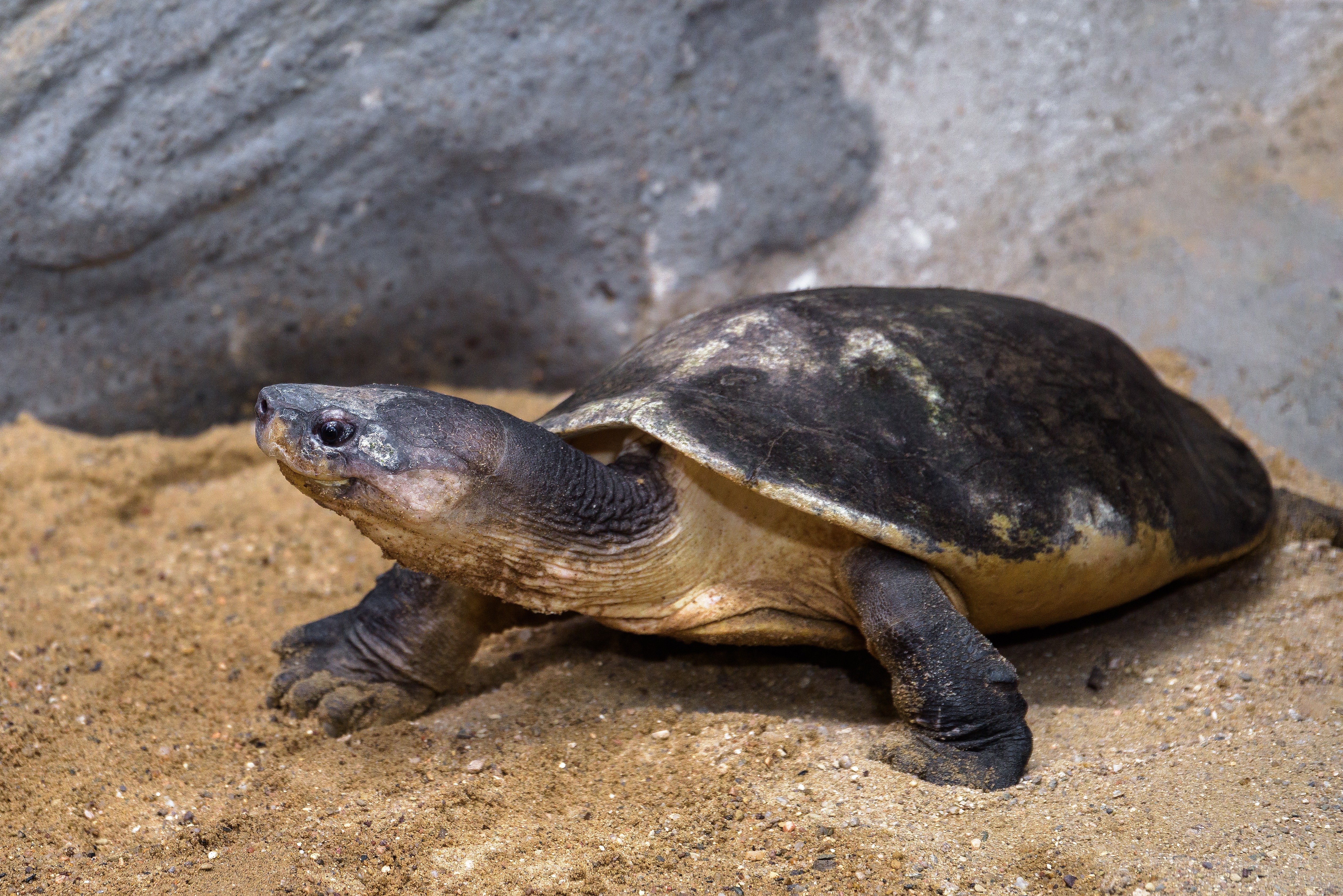 Orlitia borneensis in Prague Zoo